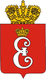 Pushkin (St. Petersburg), coat of arms